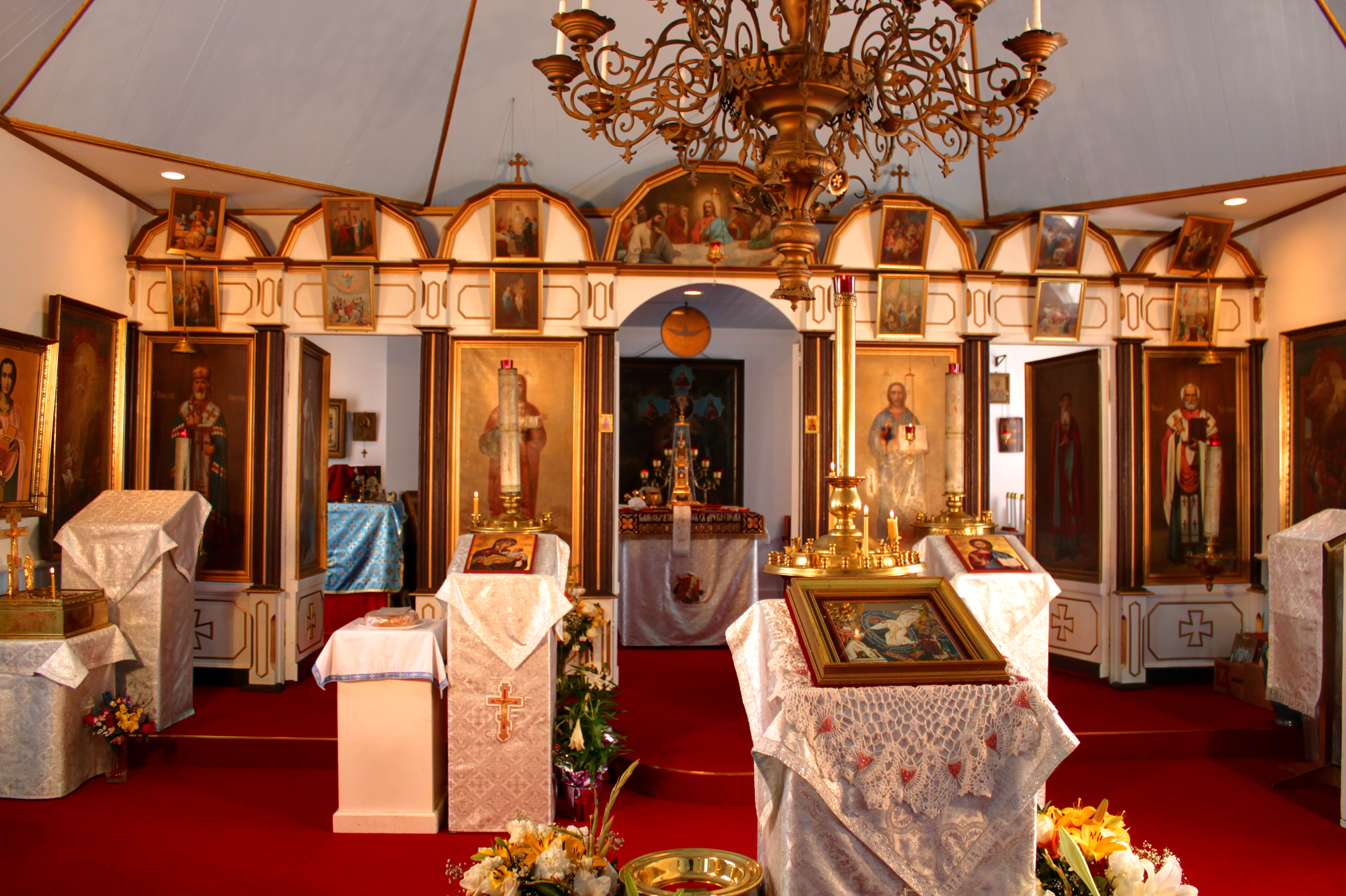 Интерьер Свято-Успенской церкви на Аляске